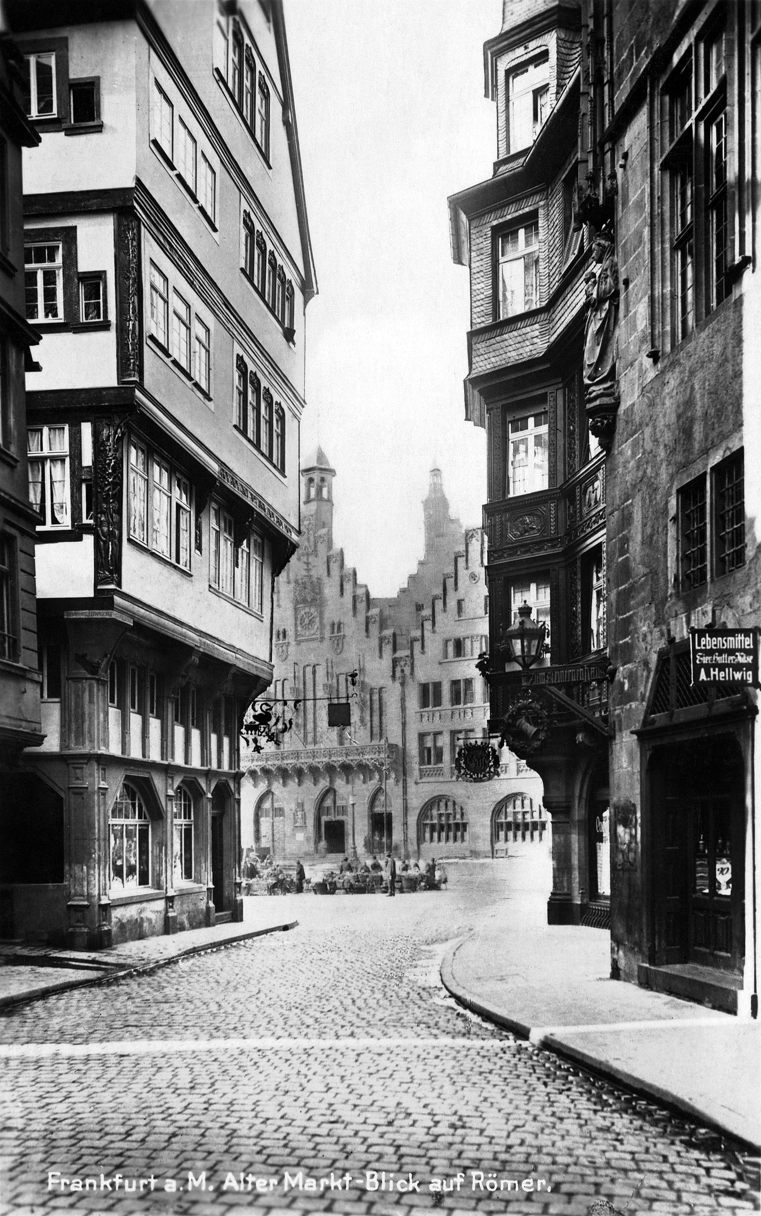 Frankfurt on the Main: Kleiner Engel (Small Angel) and the gable end common with the Großer Engel (Large Angel) as seen from the Alter Markt (Old Market)